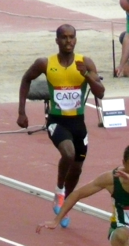 Roxroy Cato at the 2014 Commonwealth Games